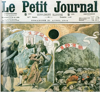 Solar eclipse of April 17